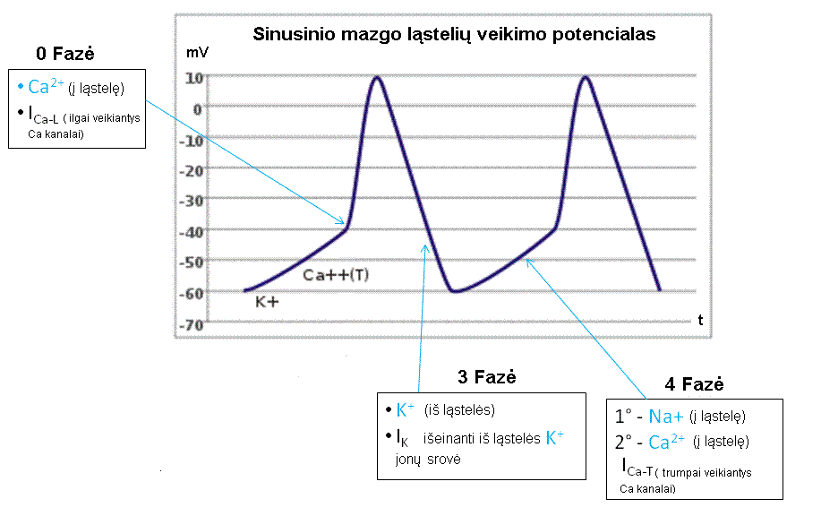 Action potential in pacemaker cells in the heart